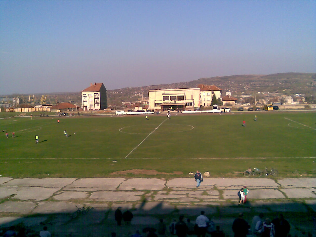 The stadium of Lom